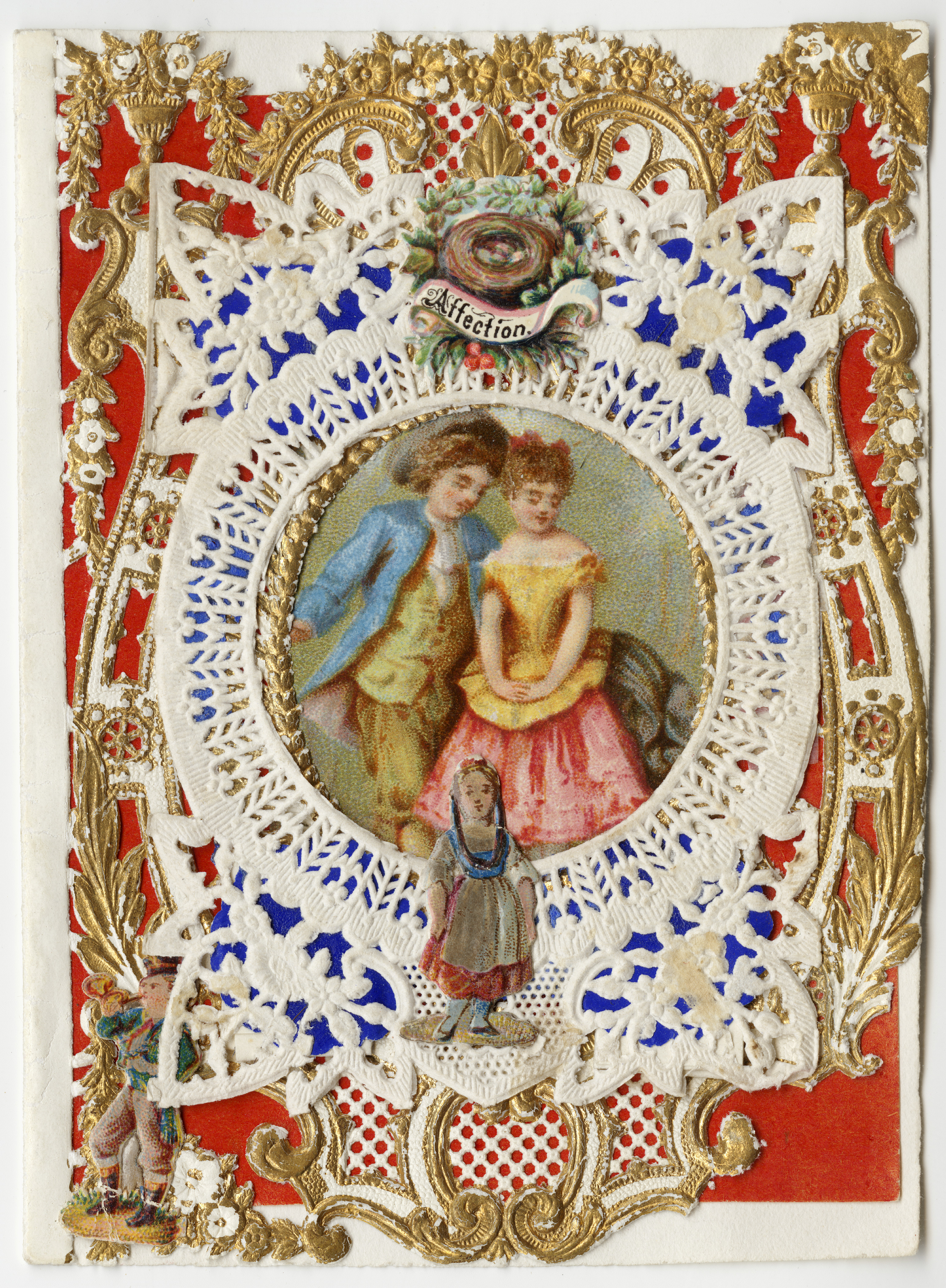 Cloth and lace Valentine card made by Esther Howland, ca. 1870s. Typescript inside card: 'You say my heart, my too fond heart, Is cold, my dear, to you; Ah! canst thou such a thought impart To one who loves so true?'